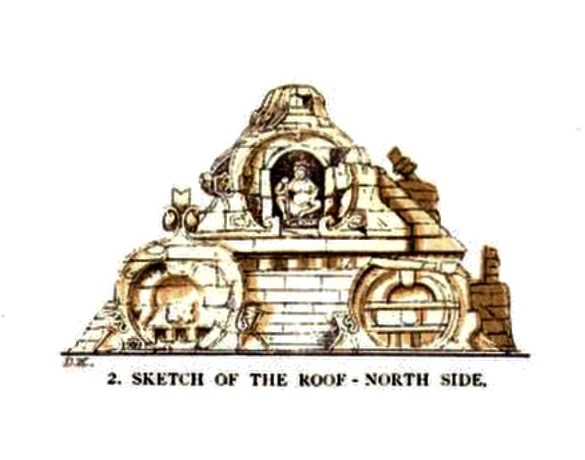 The Gop temple is a Sun temple located at Zinavari village in Jamjodhpur Taluka of Jamnagar district, Gujarat, India. The Hindu temple is dated about late 6th century or early 7th century, one of the earliest surviving stone temples in Gujarat. The original temple had a square plan, a mandapa and covered circumambulation passage which are lost, and a pyramidal masonry roof which is ruined but whose partial remains have survived. The temple has a height of 23 feet (7.0 m) which includes a small tower. The tower is decorated with arch-like windows (torana) and an cogged wheel-shaped crown amalaka.